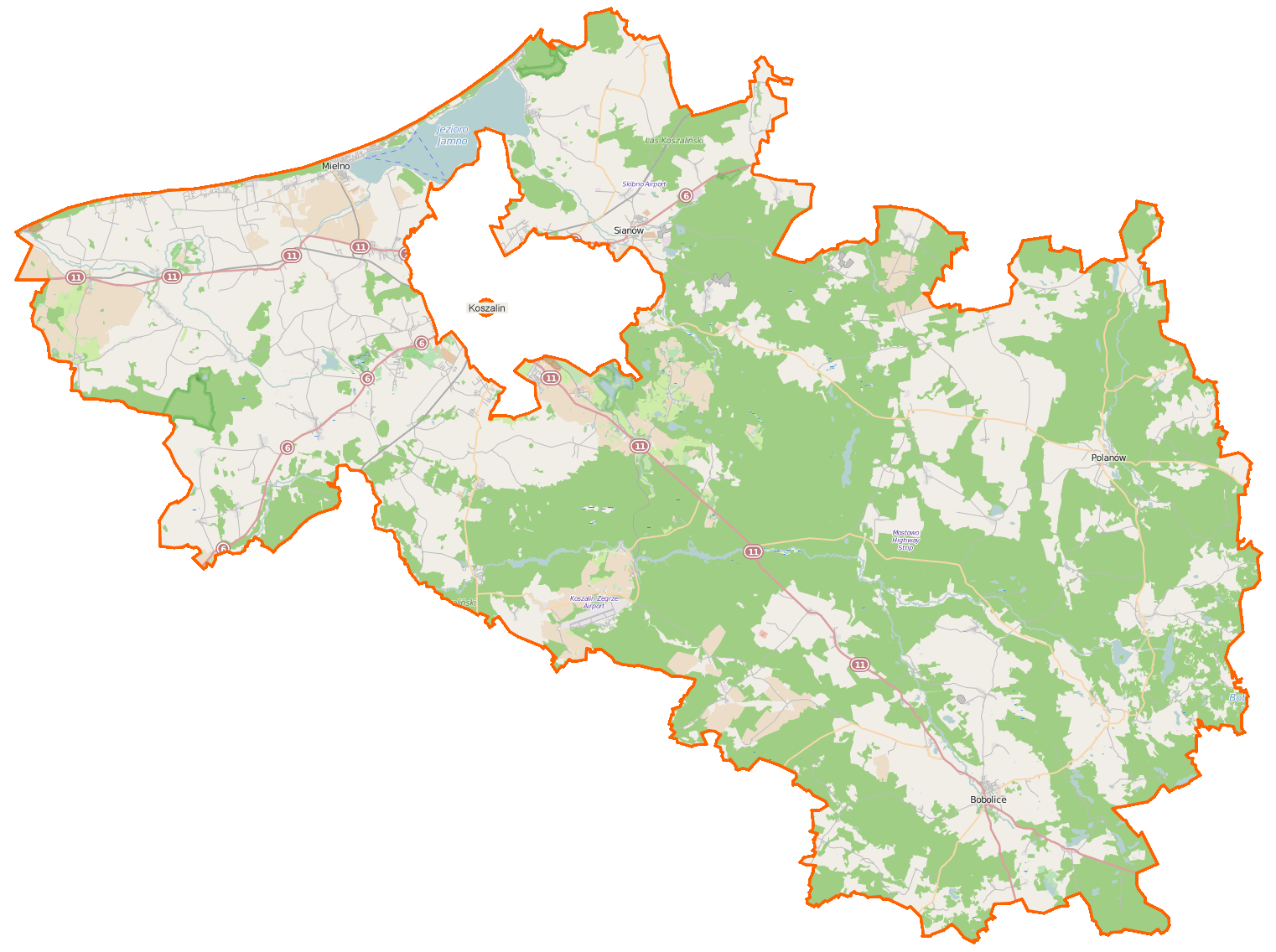 Map of Powiat koszaliński, Poland This map of Powiat koszaliński was created from OpenStreetMap project data, collected by the community. This map may be incomplete, and may contain errors. Don't rely solely on it for navigation.